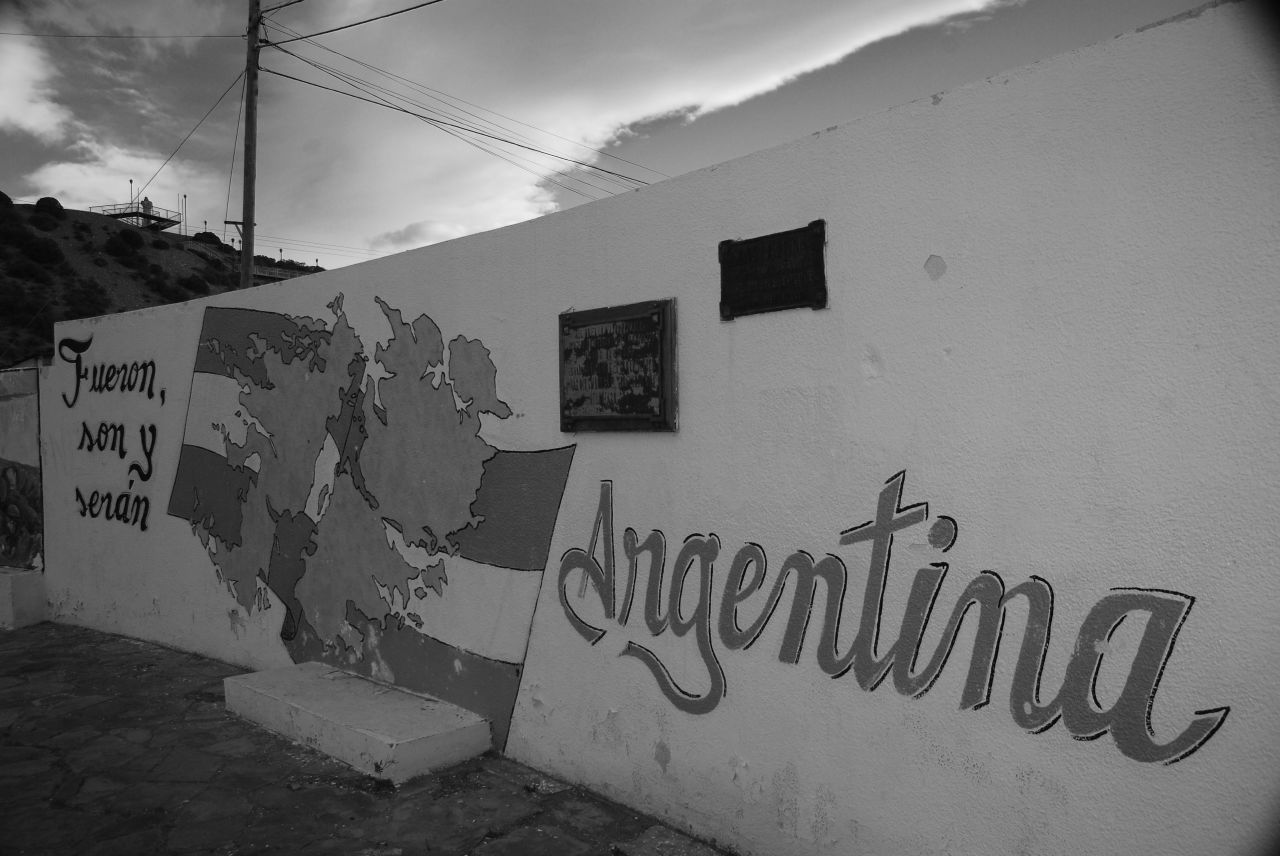 Malvinas islands (Falkland islands) graffiti in Los Antiguos, Santa Cruz, Argentina.